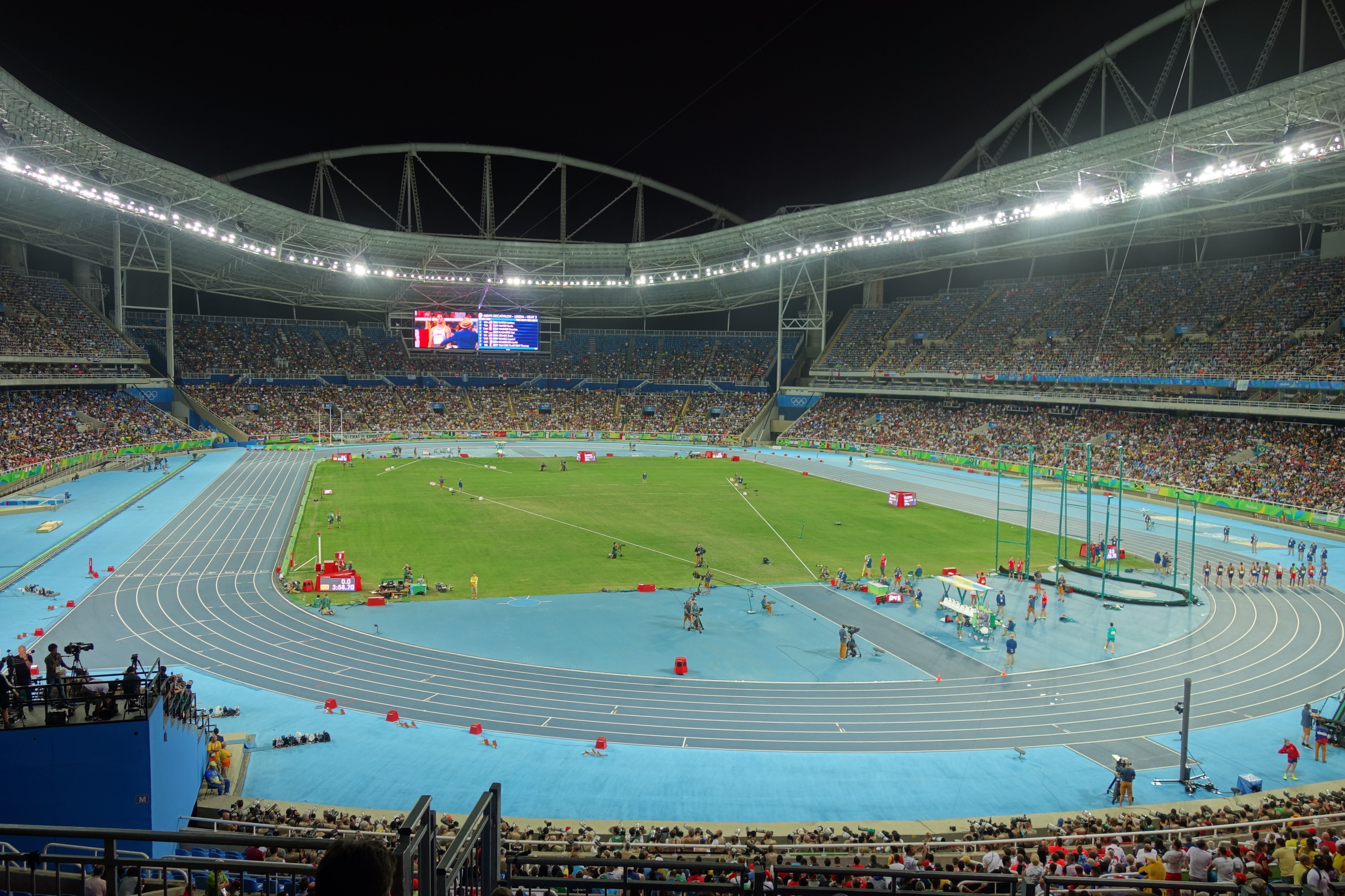 Engenhão Stadium/Olympic Stadium, August 18, 2016.